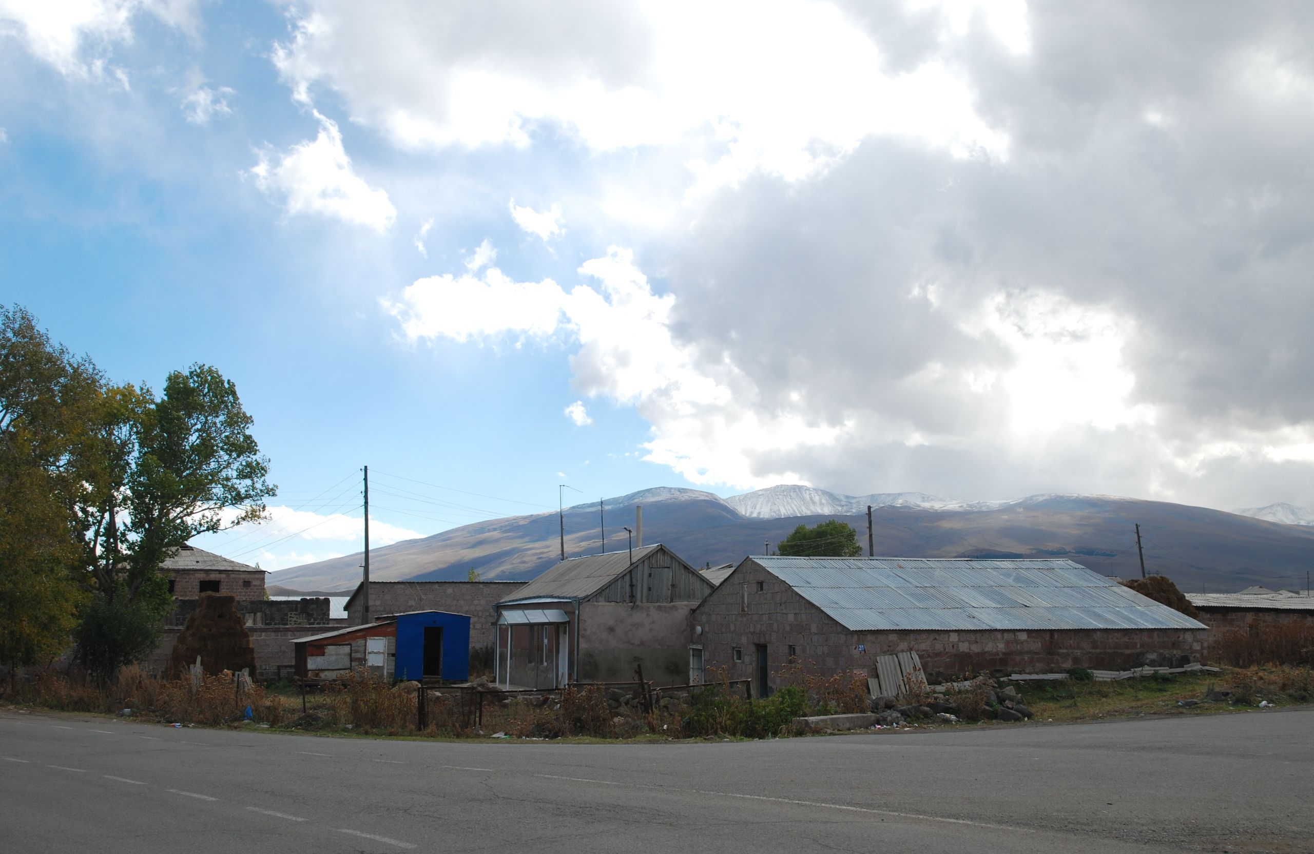 Alagyaz, village and Mt. Aragats